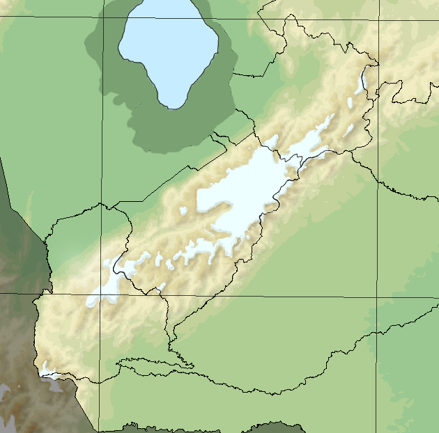 Approximate extent of the Mérida Glaciation during the Last Glacial Maximum in Venezuela.